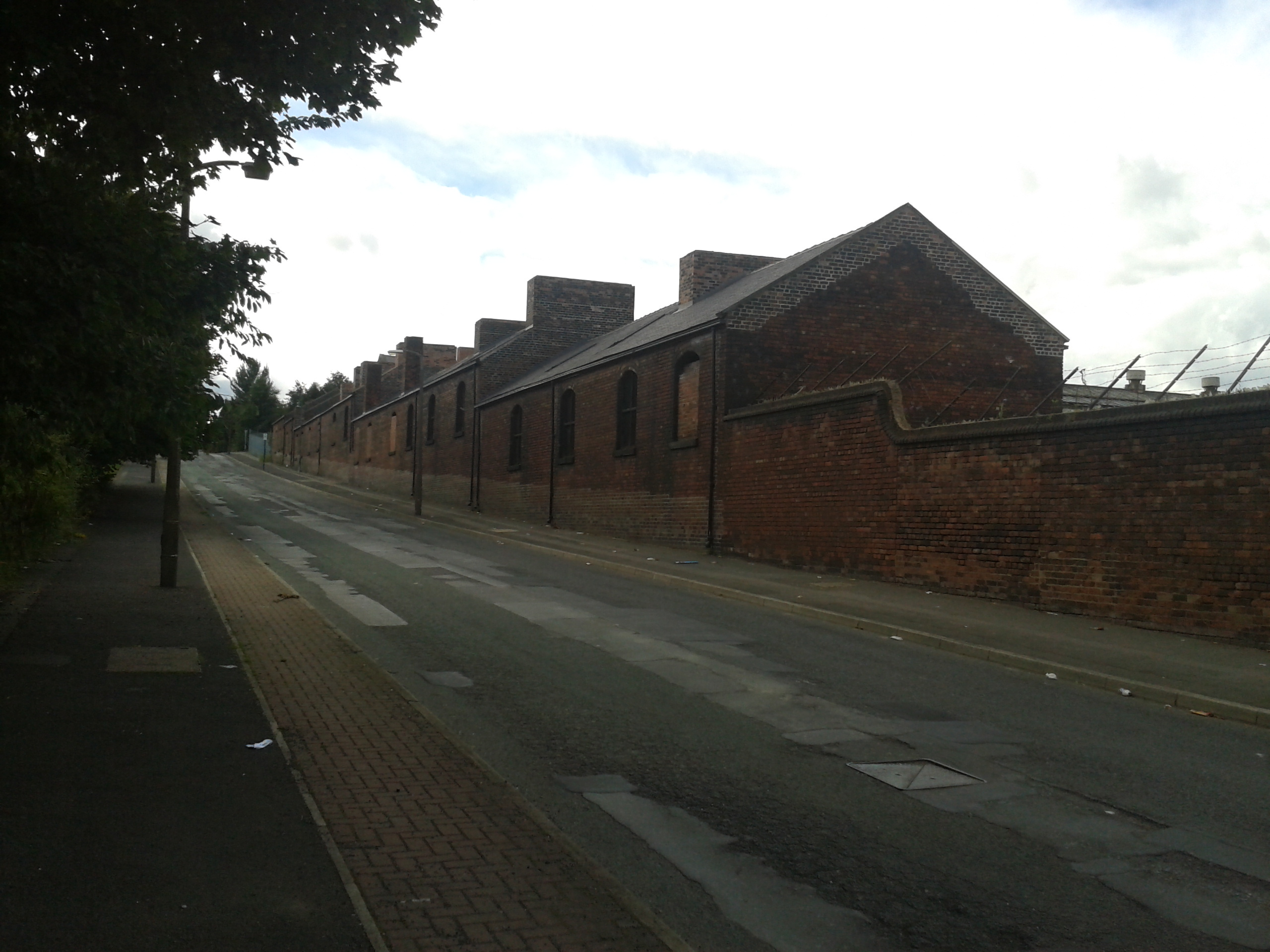 Crucible Steel Shops on South East Side of Sandersons Kaysers Darnall Works